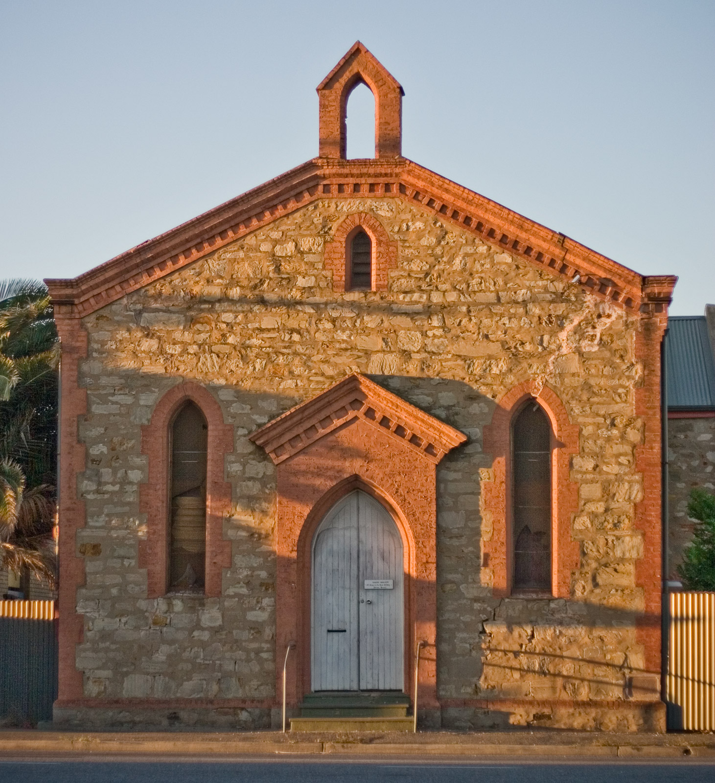 Front view of the Rosewater Uniting Church as of February 11, 2007